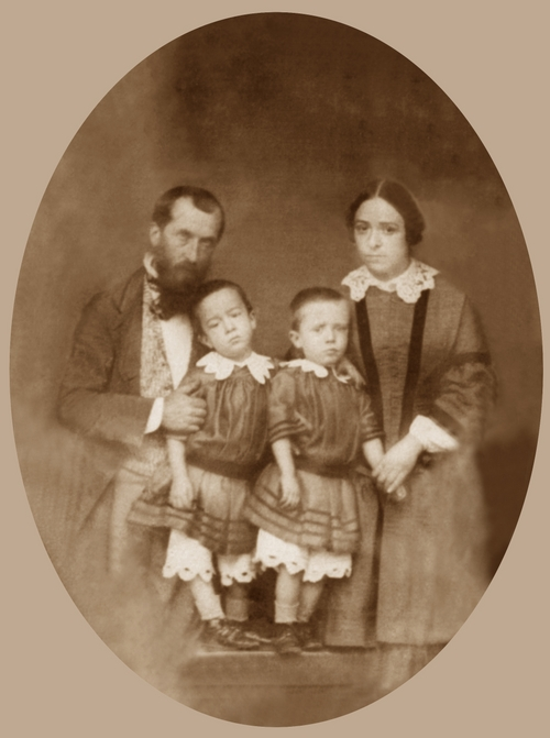 Léodile and Grégoire Champseix with their twin sons André and Léo